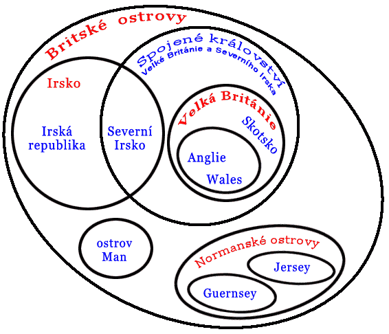 national/geographical scheme of the British Isles - with labels in Czech